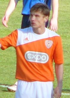 Stanislav Dubrovin, Russian soccer player, striker